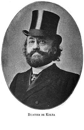 Buatier de Kolta